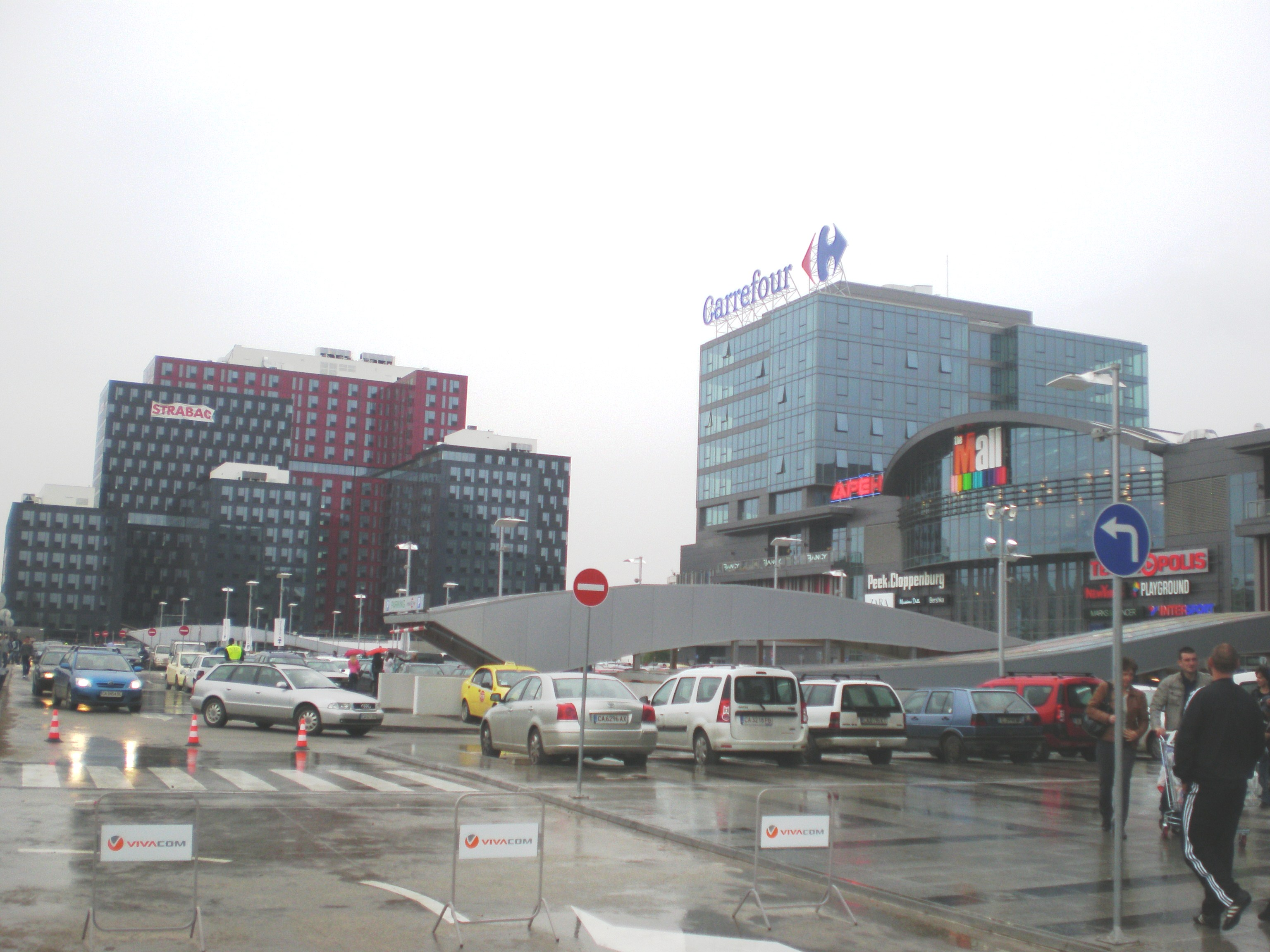 Tsarigradsko shose, Mega Park - Sofia, Bulgaria